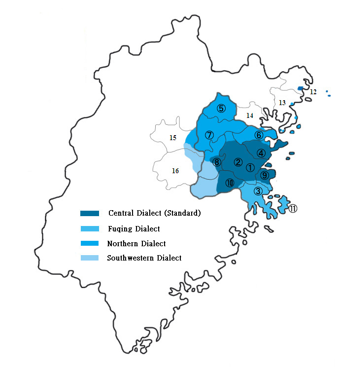 Language Map of Fuzhou Dialect, regions where the standard form is spoken are deep blue:1: Fuzhou City Proper, 2: Minhou, 3: Fuqing, 4: Lianjiang, 5: Pingnan, 6: Luoyuan, 7: Gutian, 8: Minqing, 9: Changle, 10: Yongtai, 11: Pingtan, 12: Regions in Fuding, 13: Regions in Xiapu, 14: Regions in Ningde, 15: Regions in Nanping, 16: Regions in Youxi